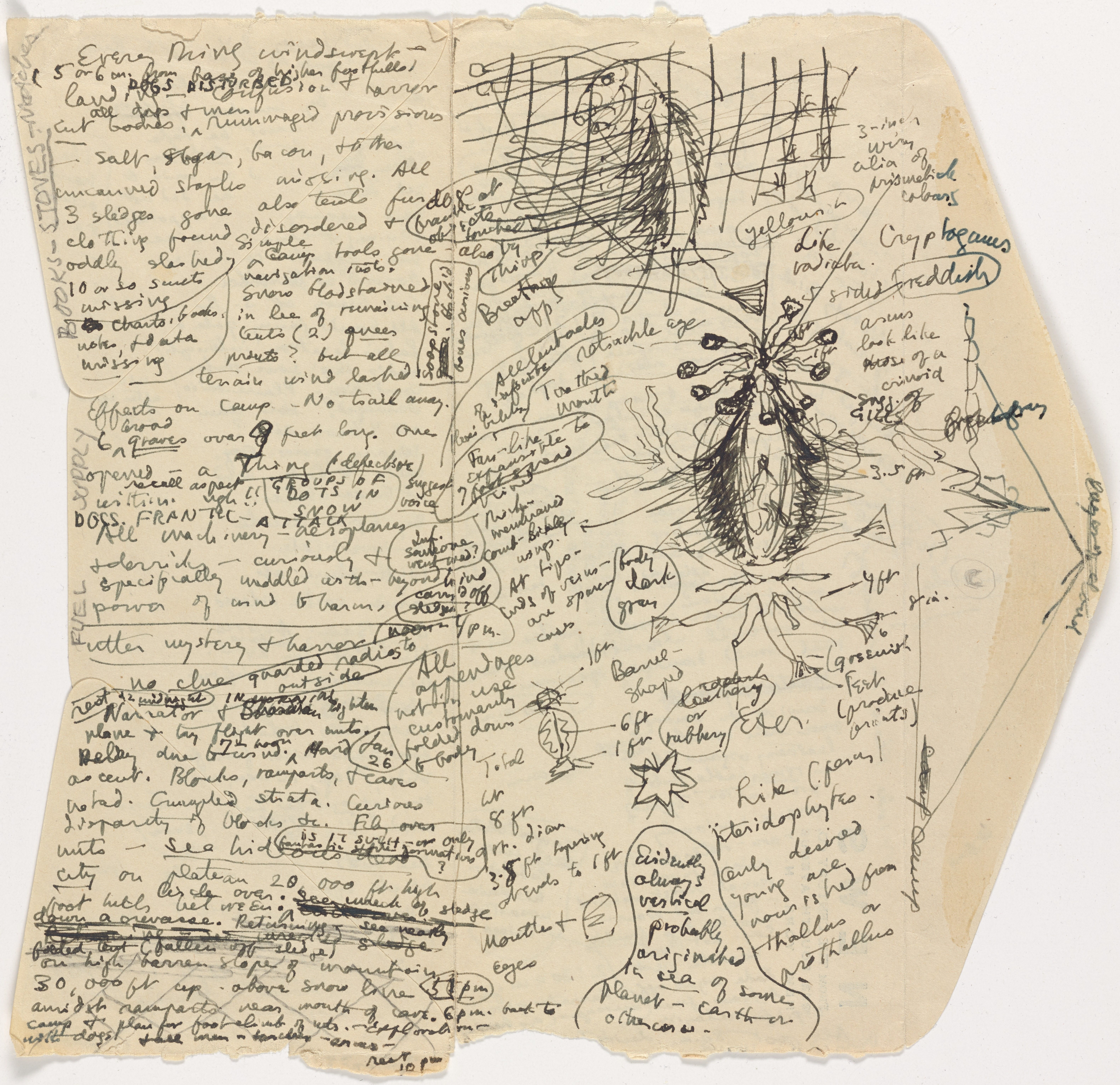 At the Mountains of Madness - plot notes